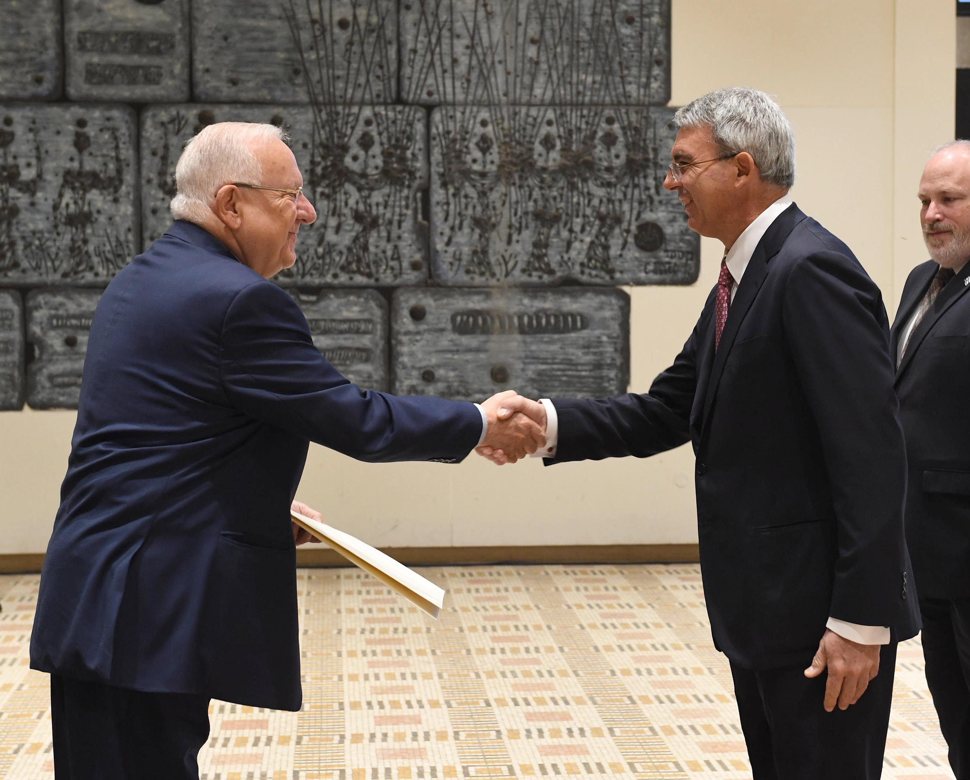 Reuven Rivlin receives the credential of the new ambassador from Italy. The President of the State of Israel, Reuven Rivlin, receives the credentials of the new ambassadors from Italy, Denmark, the European Union and Nigeria - upon their entry as ambassadors of their respective countries in Israel and afterwards met with the Romanian Foreign Minister who visited Israel. Monday, Tuesday, October 23, 2017.